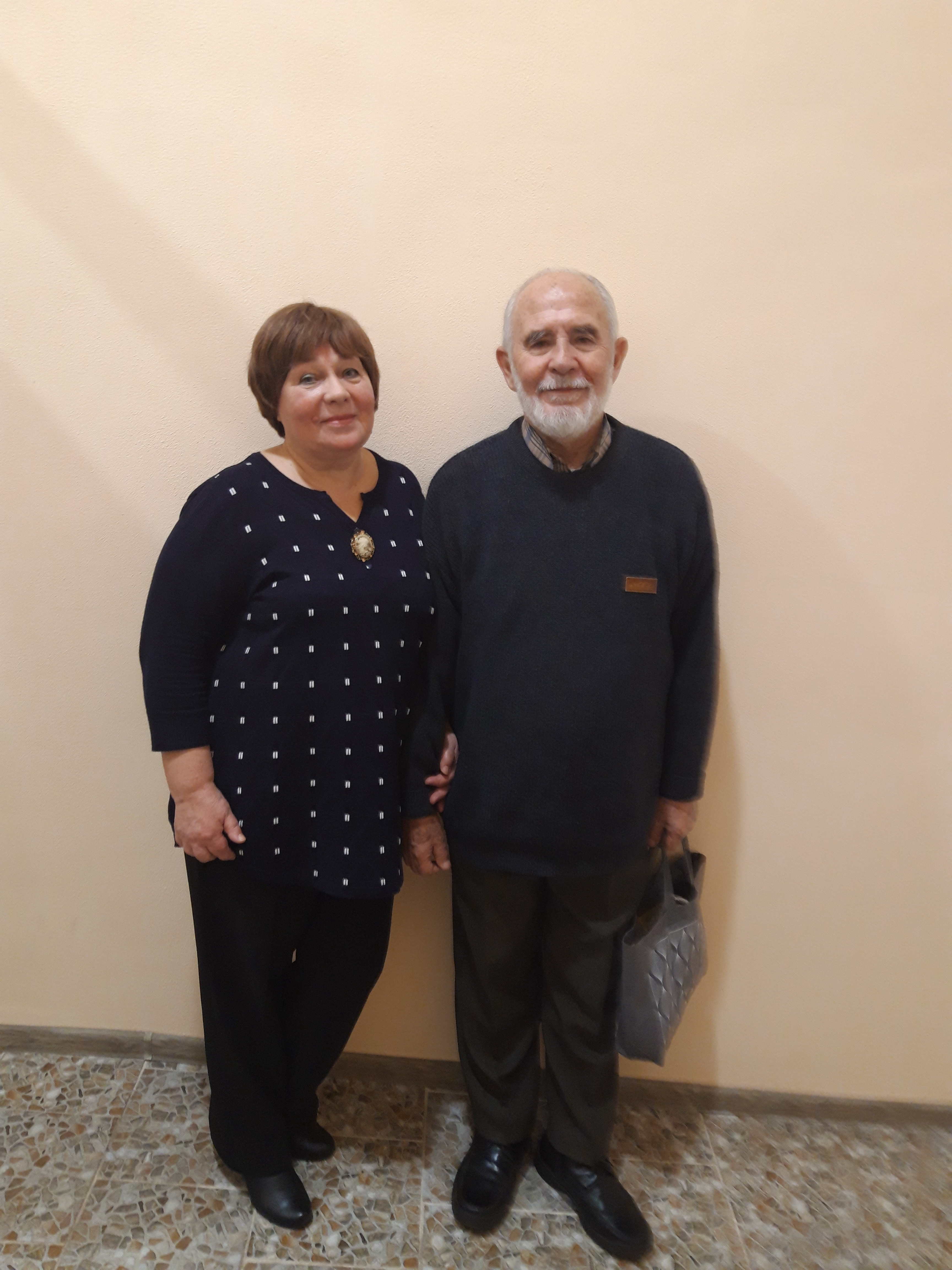 Valeriy Druzhbynsky & Natalia Filippova, the Ukrainian writers